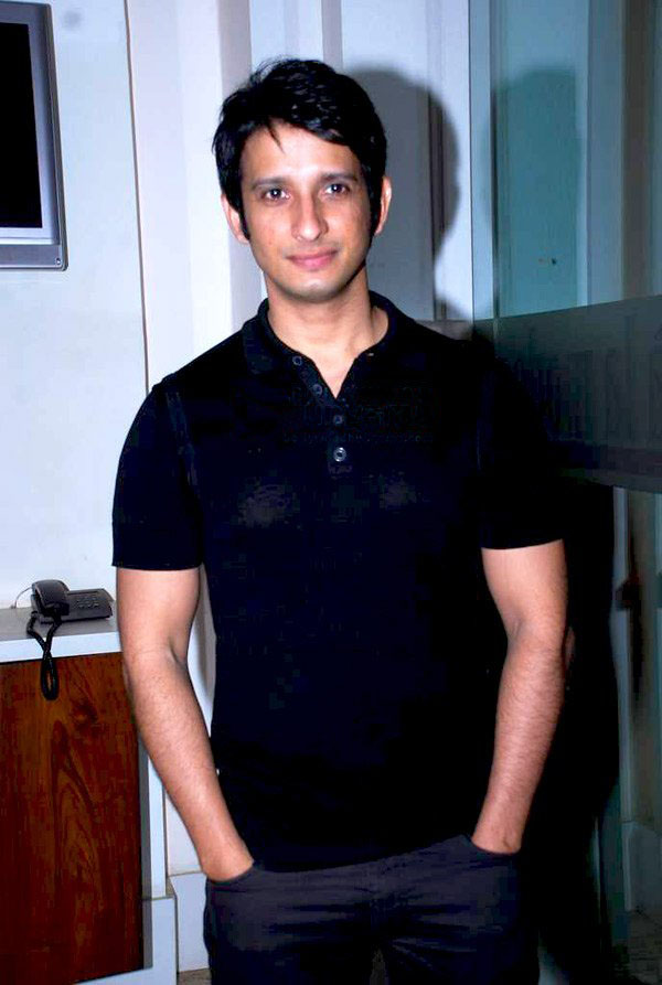 Sharman Joshi at Misti Mukherjee's album launch